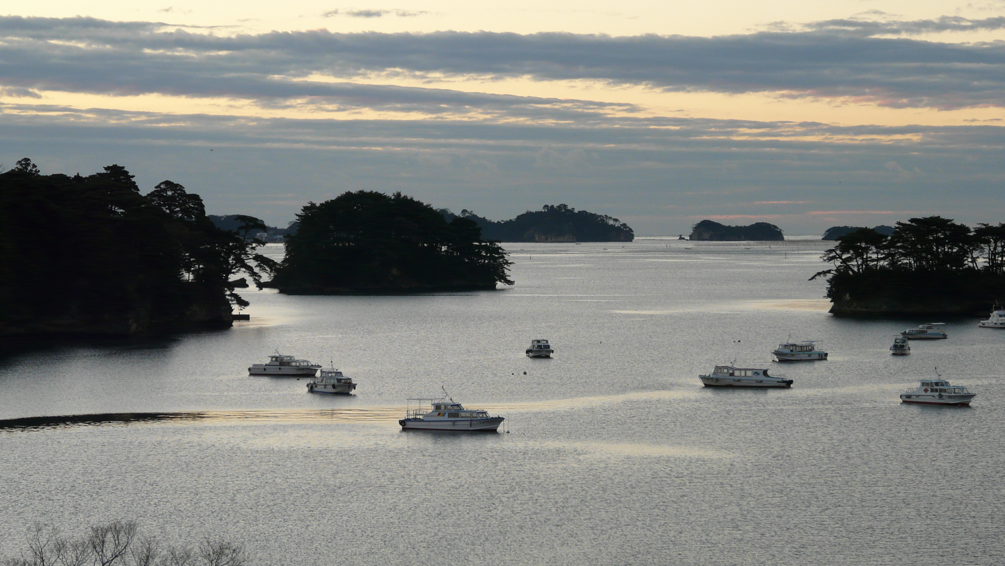 Matsushima Miyagi Japan